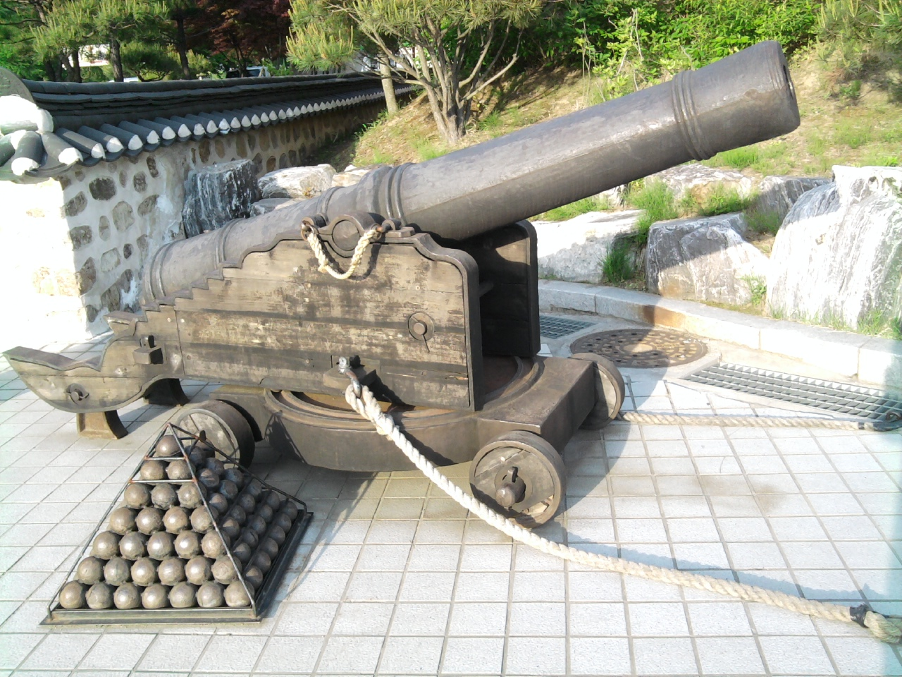 Korean culverin